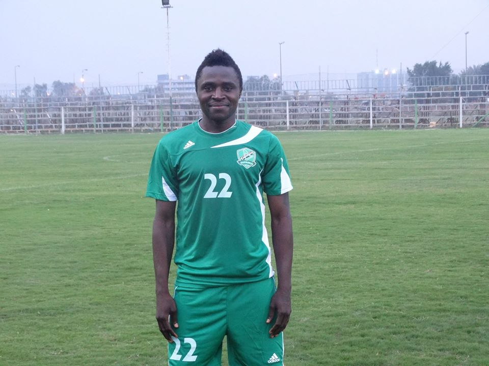 A photo of Innocent Awoa at Al-Shorta Stadium in November 2013.